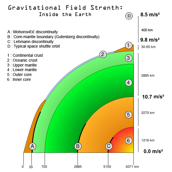 View of inner parts of earth. continental crust oceanic crust upper mantle lower mantle outer core inner core A : crust-mantle boundary (Mohorovičić discontinuity) B : core-mantle boundary (Gutenberg discontinuity) C : outer-inner core boundary (Lehmann discontinuity)